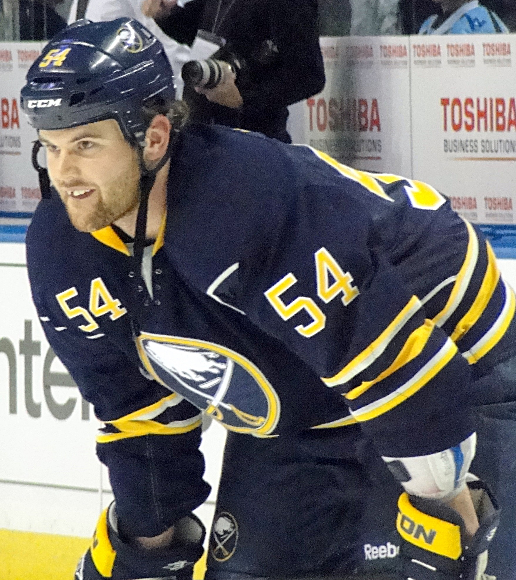 Buffalo Sabres forward Zack Cassian warms up for a February 19, 2012 game against the Pittsburgh Penguins at First Niagara Center in Buffalo, NY.